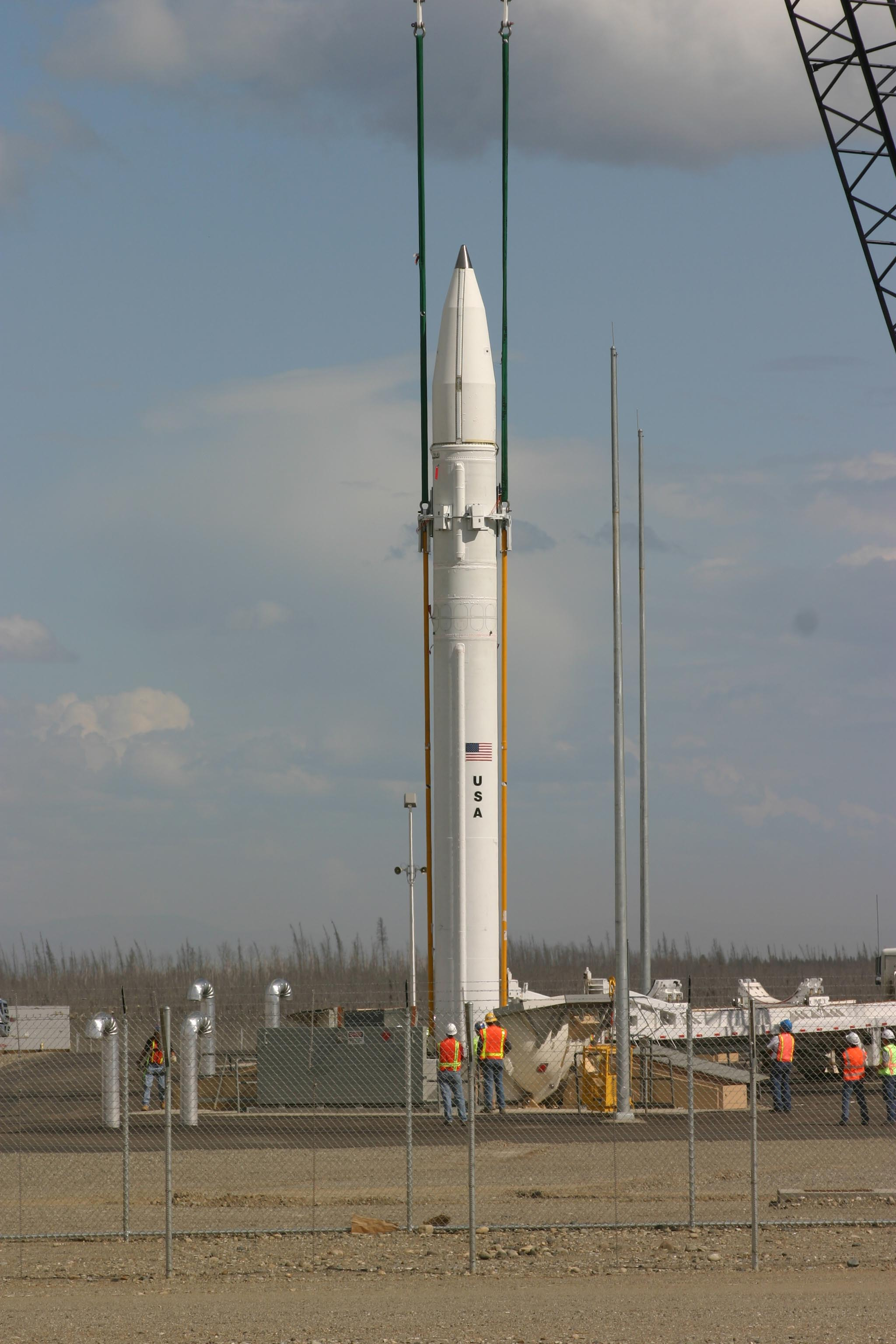 OBV rocket (GBI, Ground Based Interceptor) beeing loaded into Silo